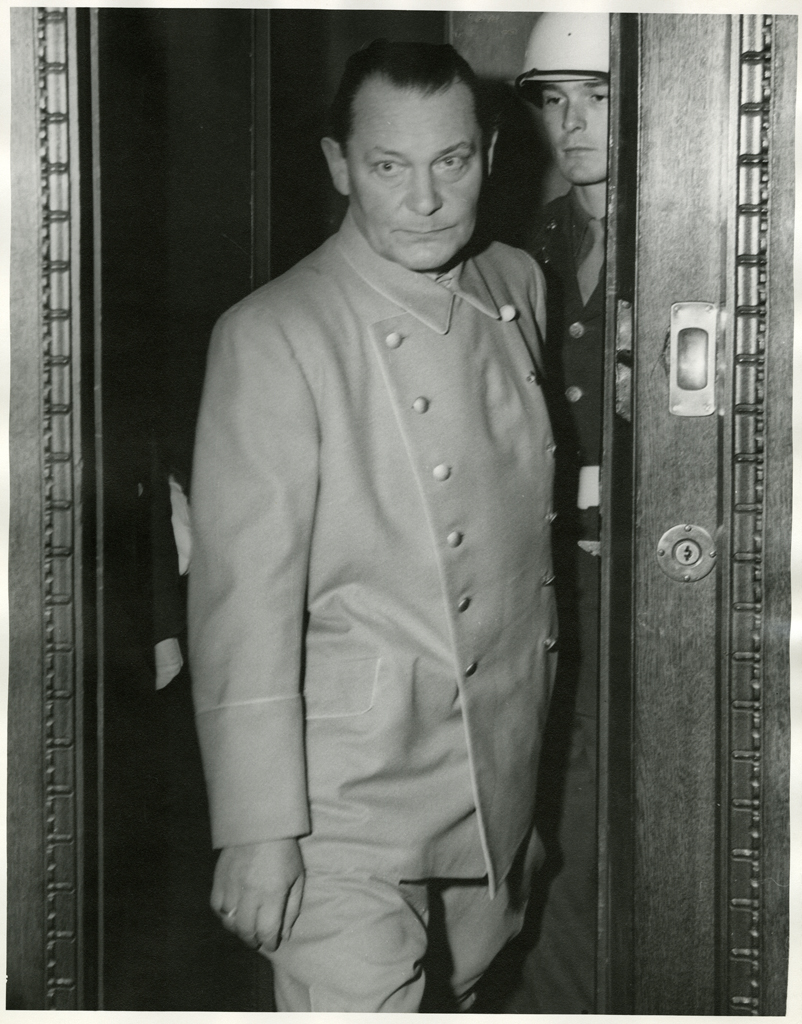 German Nazi politician and military leader Hermann Göring photographed entering the courtroom at the Nuremberg Trials, Nuremberg, Germany. A military policeman can be seen behind him. Gelatin silver process on paper. 35 x 27.2 cm. Image courtesy of the Harvard Law School Library, Harvard University, Cambridge, Mass.